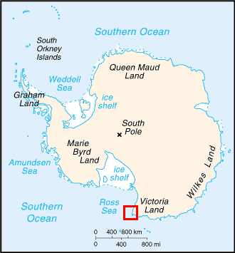 The location of the Possession Islands in the Ross Sea, Antarctica.